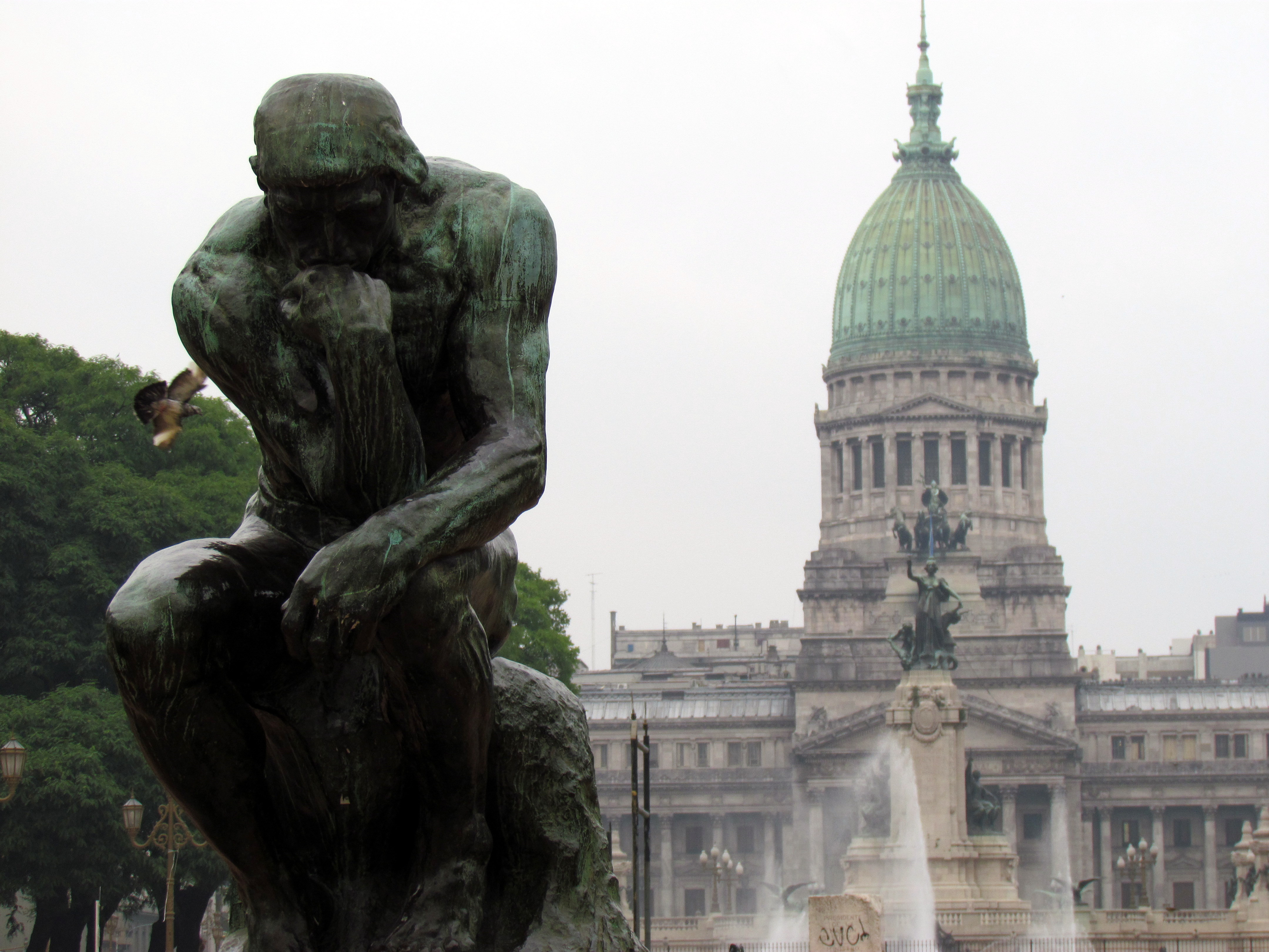 Plaza del Congreso, Buenos Aires, Argentina.